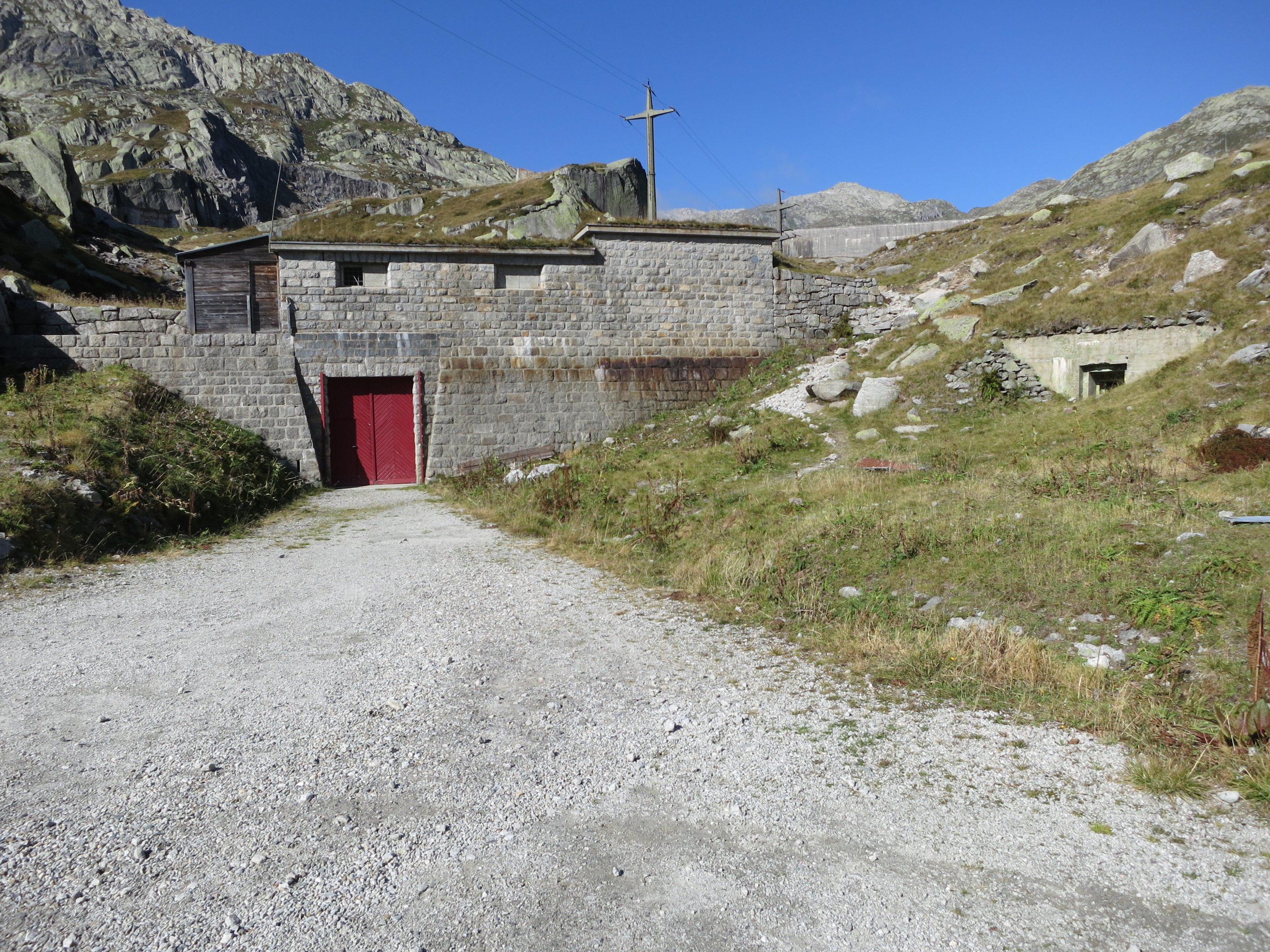 Artilleriewerk San Carlo, Airolo, Schweiz